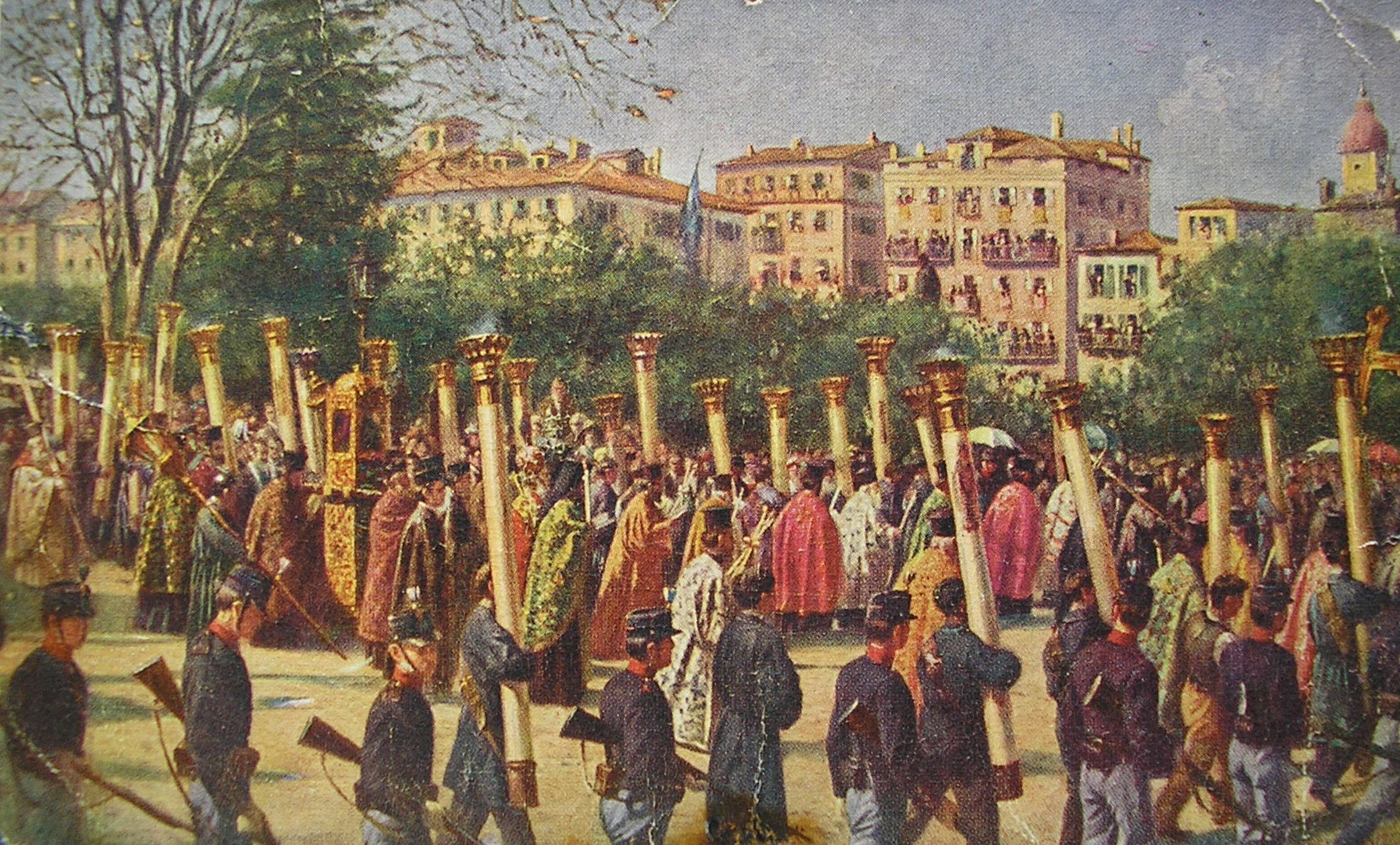 Famous painting by Georgios Samartzis (1868-1925) "The Procession of Saint Spyridon", featuring the annual procession on the Spianada of Corfu